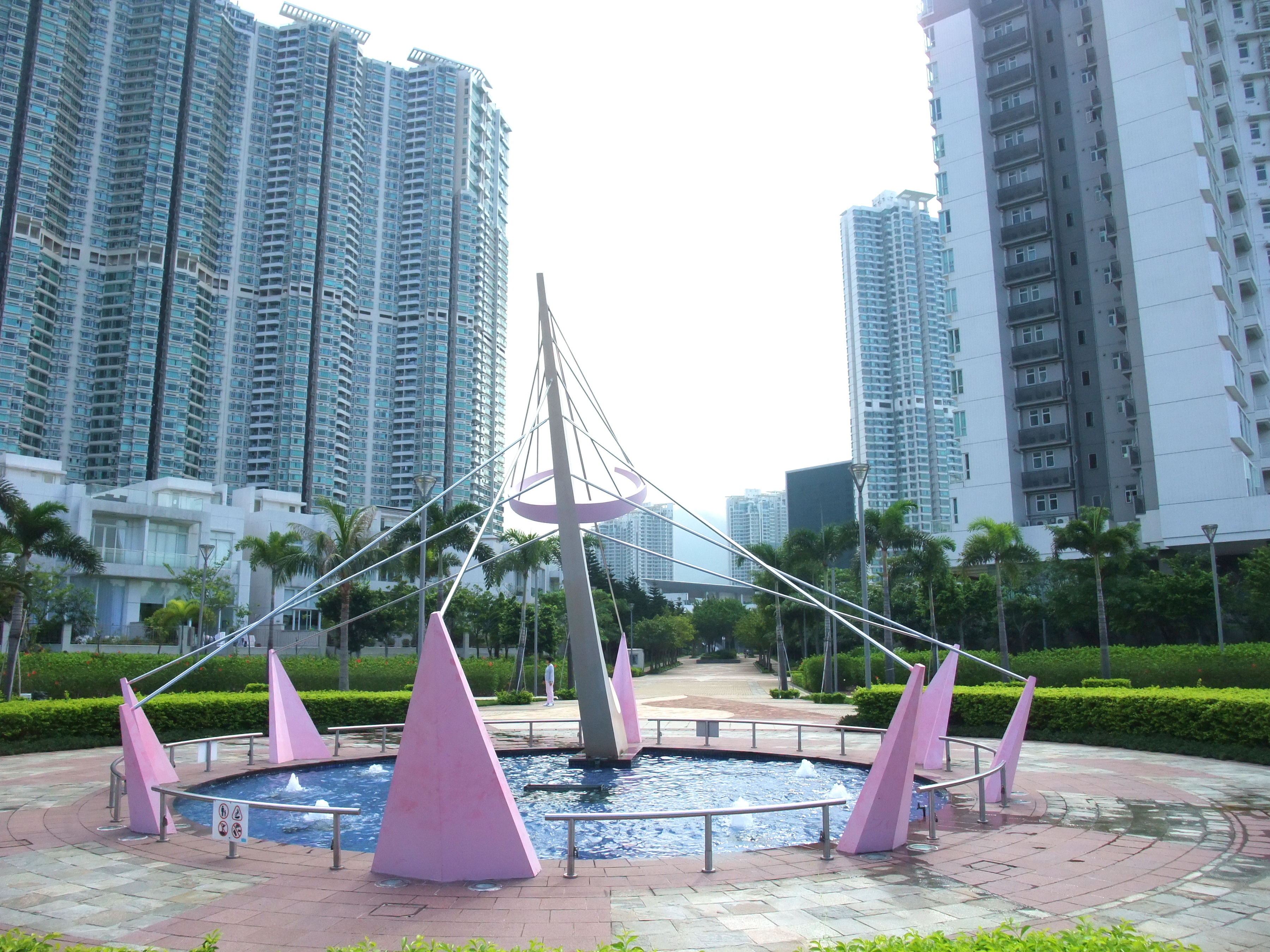 A park in the Coastal Skyline, Tung Chung, New Territories, Hong Kong.